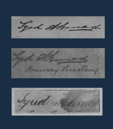 Signatures of Sir Syed Ahmed Khan